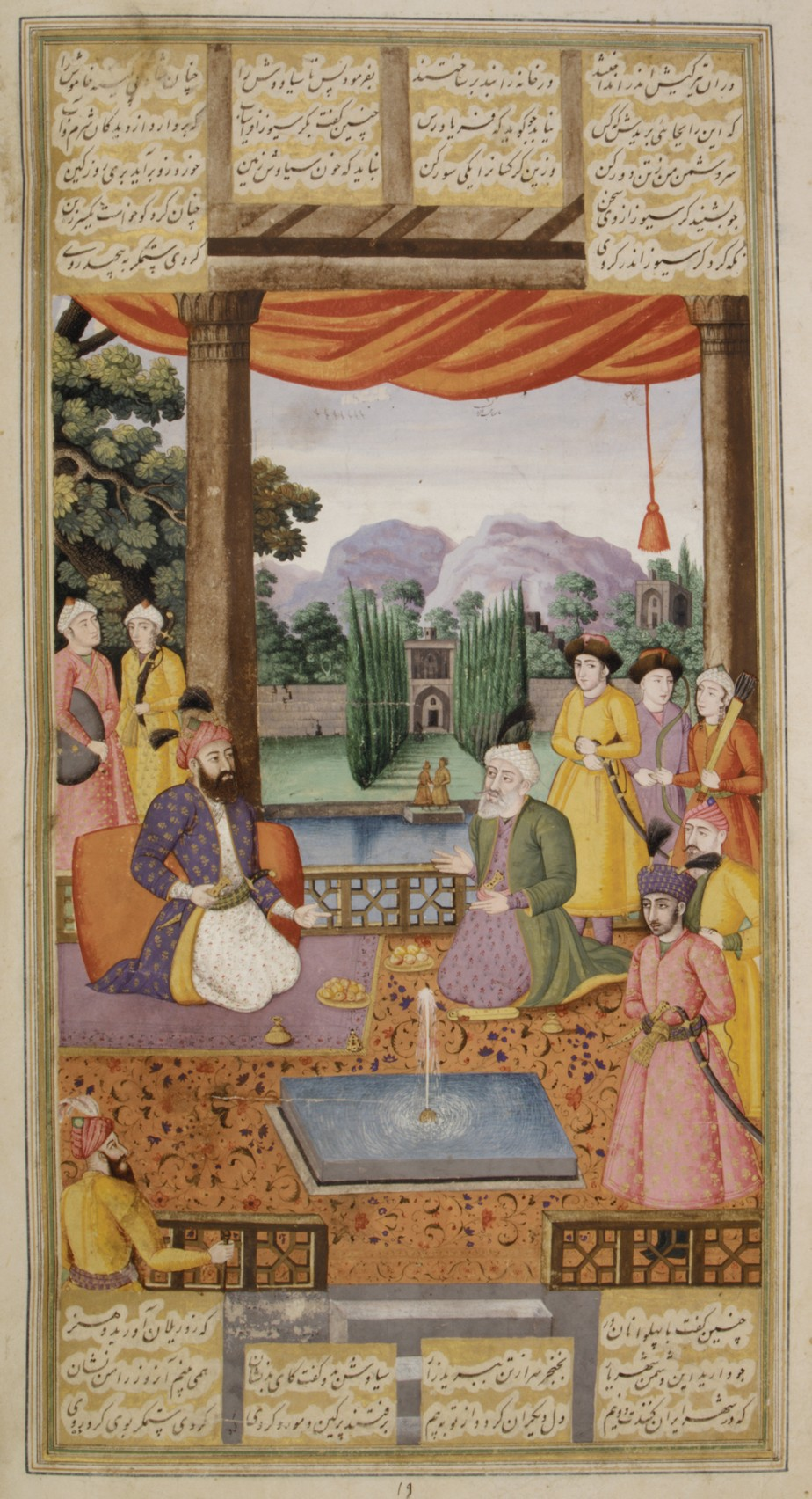 Siavush brought captive before Afrasiab. In the late seventeenth century, the imprint of European painting appears in the style of certain Persian artists such as Muhammad Zaman. Here it can be seen in the use of perspective, the thick-foliaged trees, the shaded hills, and the bellpull in the pavilion. The terrace with its openwork railing and the river with its bank just beyond reflect the influence of painting of Mughal India, where the artist may have resided at one time.